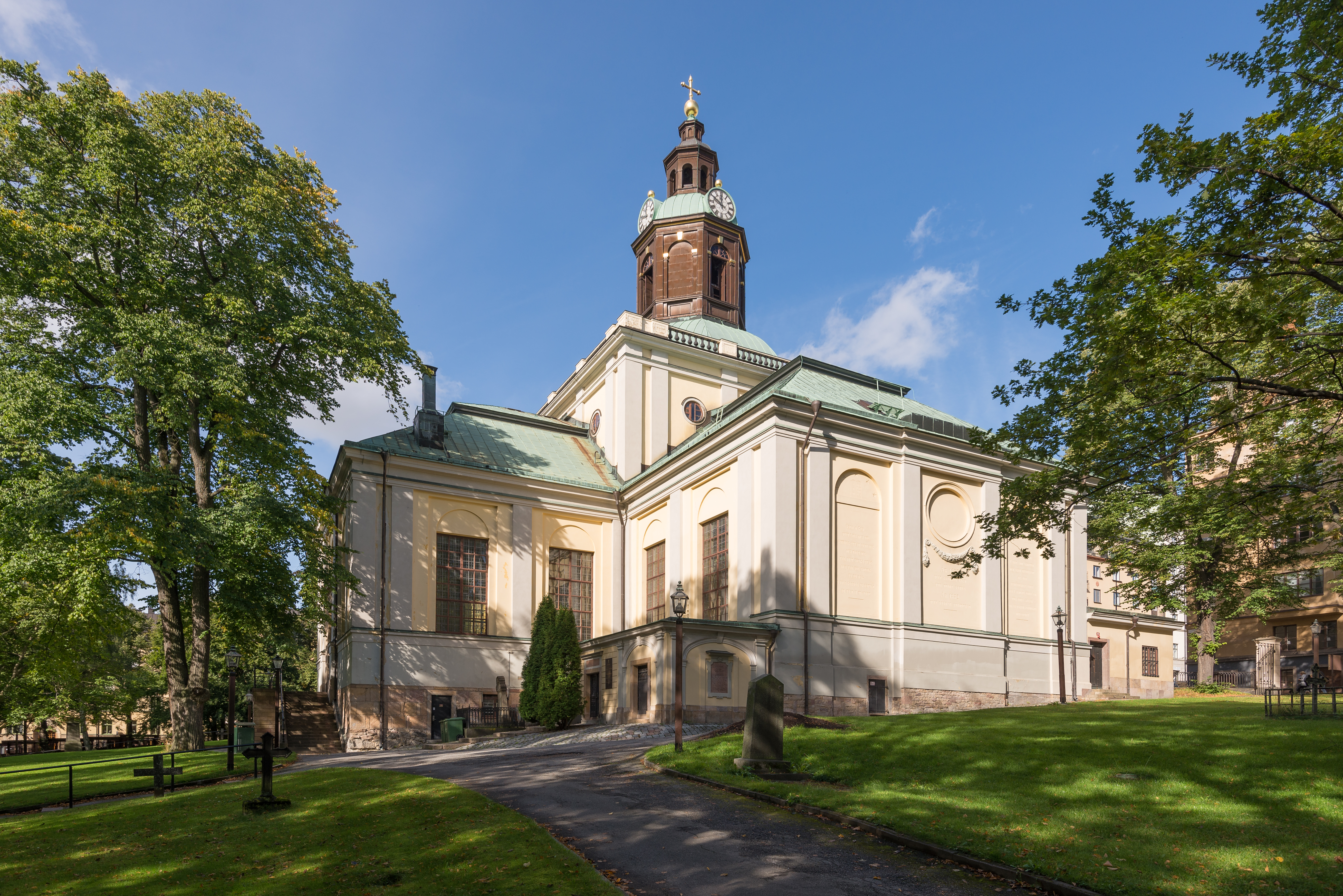 Kungsholm church. Kungsholmen, Stockholm.